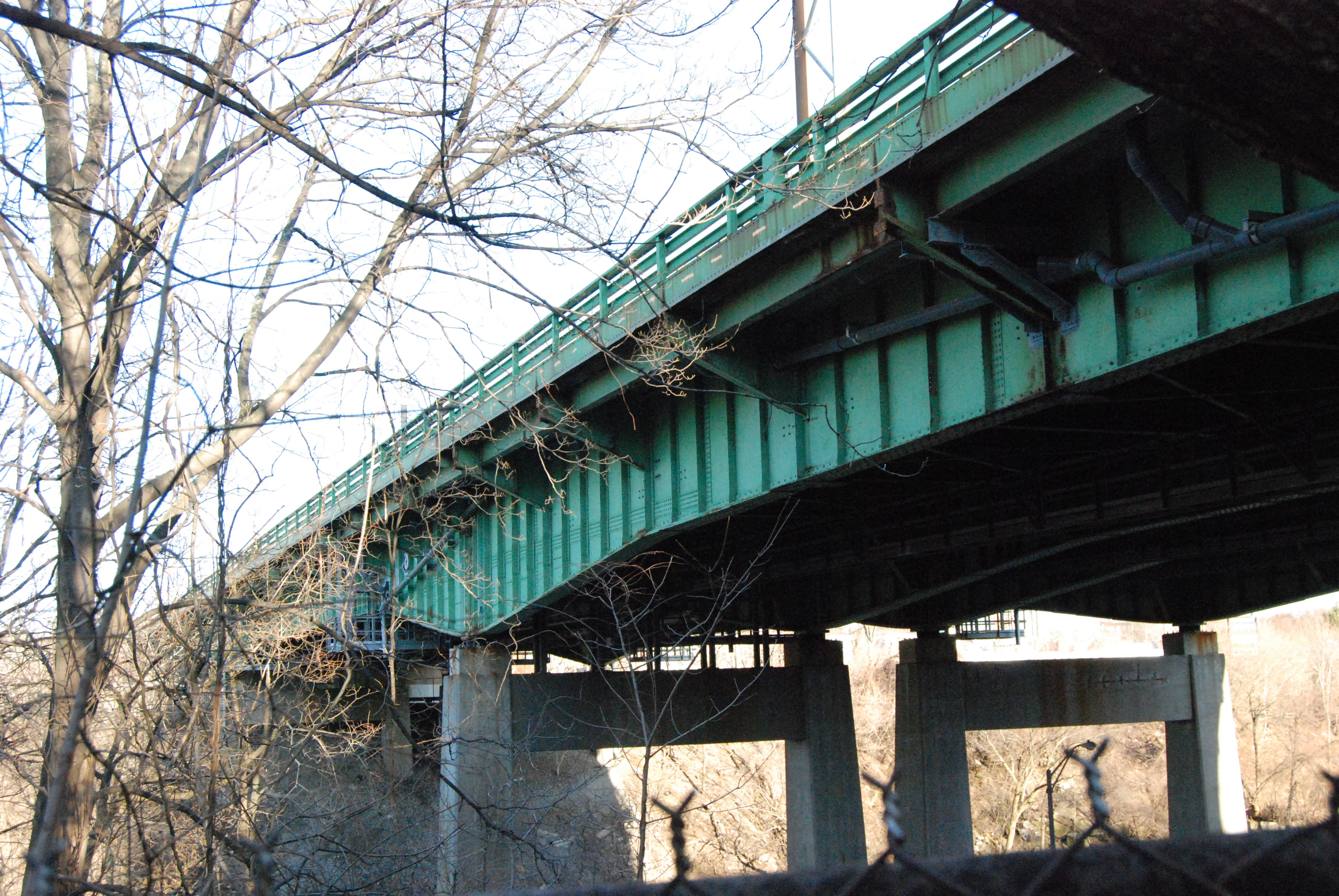 View of Pawtucket River Bridge (built 1958) over the Blackstone River at Pawtucket, Rhode Island to carry I-95. (Demolished and replaced in 2012-13).